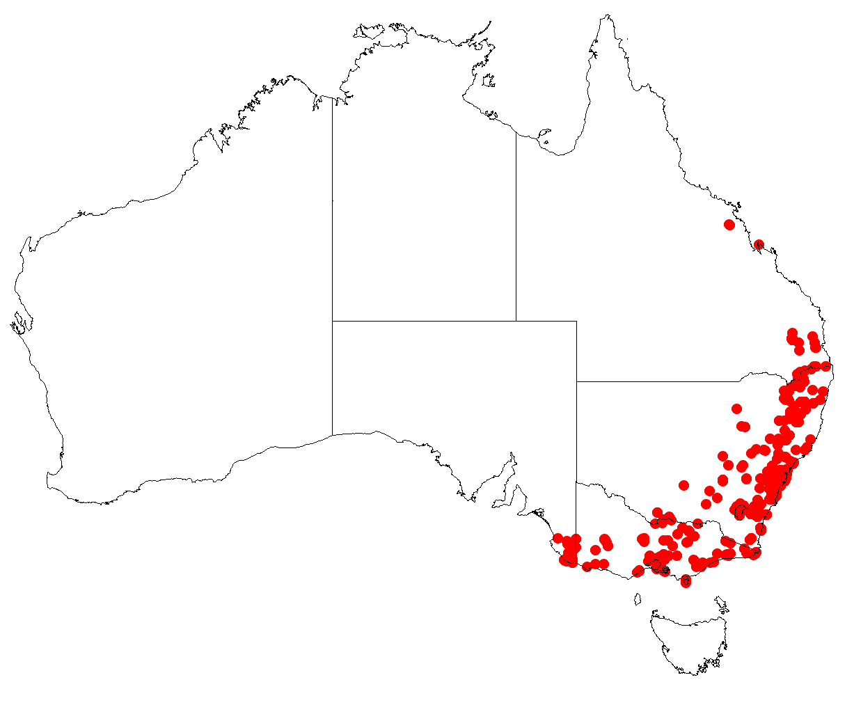 Australian distribution of Muellerina eucalyptoides based on download from Australasian Virtual Herbarium May 9, 2018